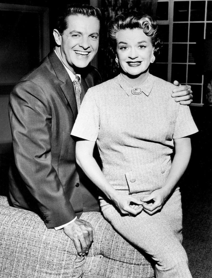 Photo of Bob Cummings and Rosemary DeCamp promoting The Bob Cummings Show television program. DeCamp played his sister, Margaret, on the show.